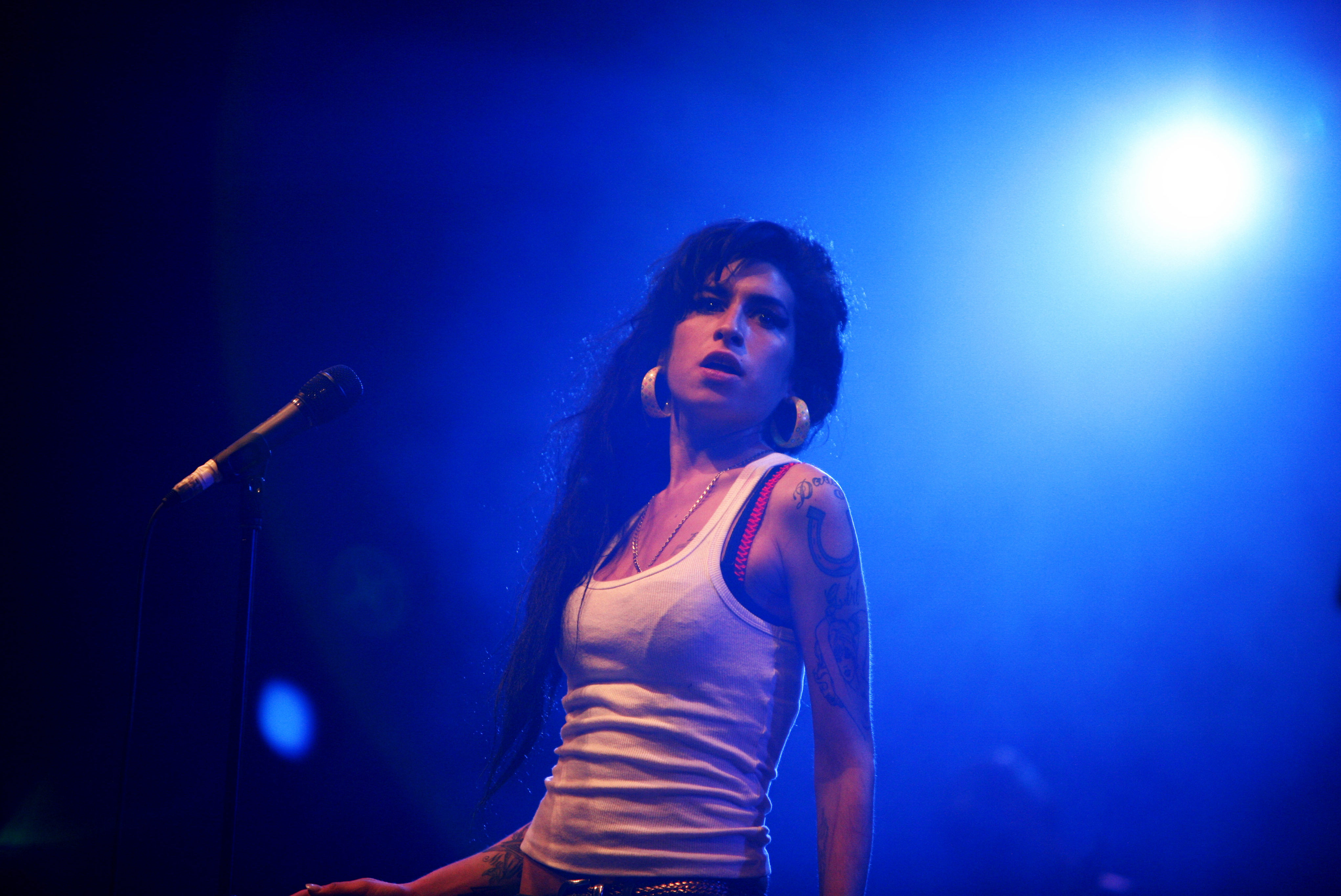 Amy Winehouse at the Eurockéennes of 2007